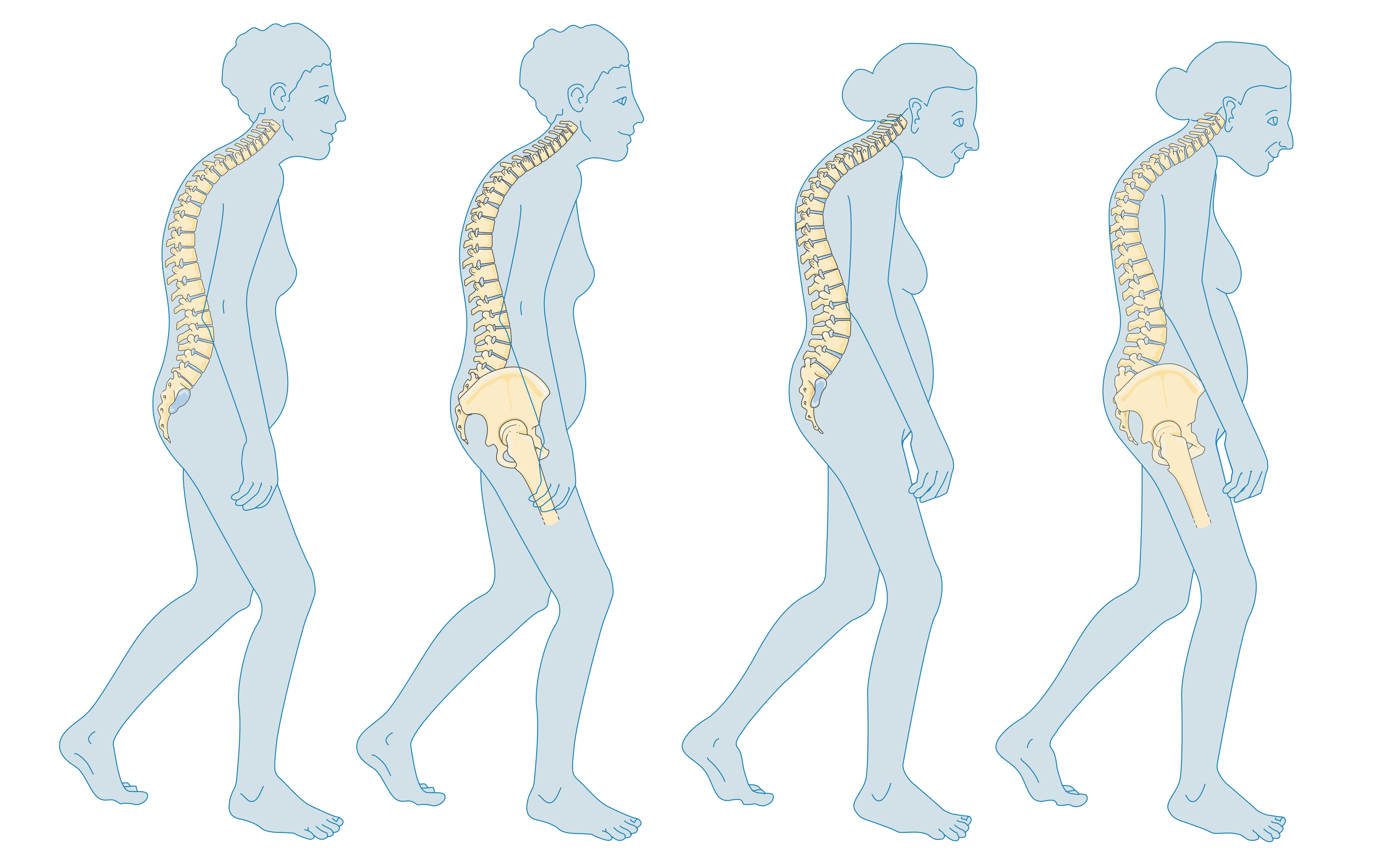 Skeleton and bones - Menopause - Osteoporosis